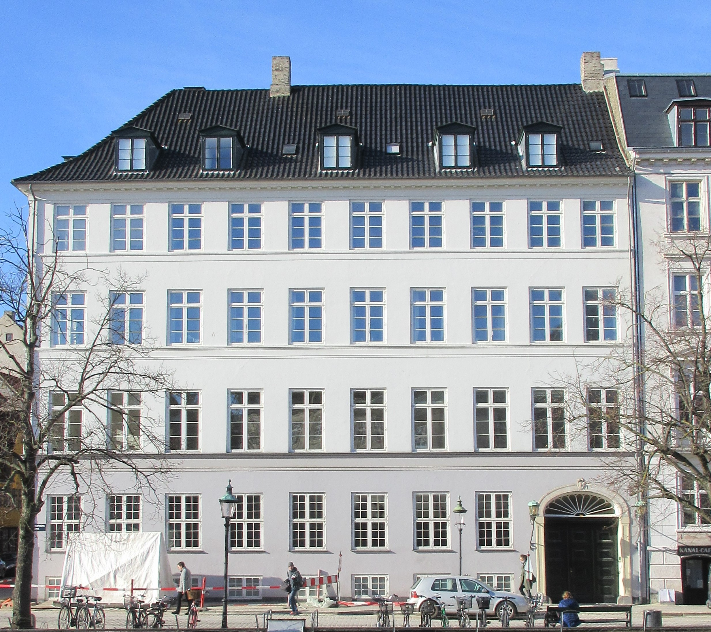 Frederiksholms Kanal 20 in Copenhagen, Denmark